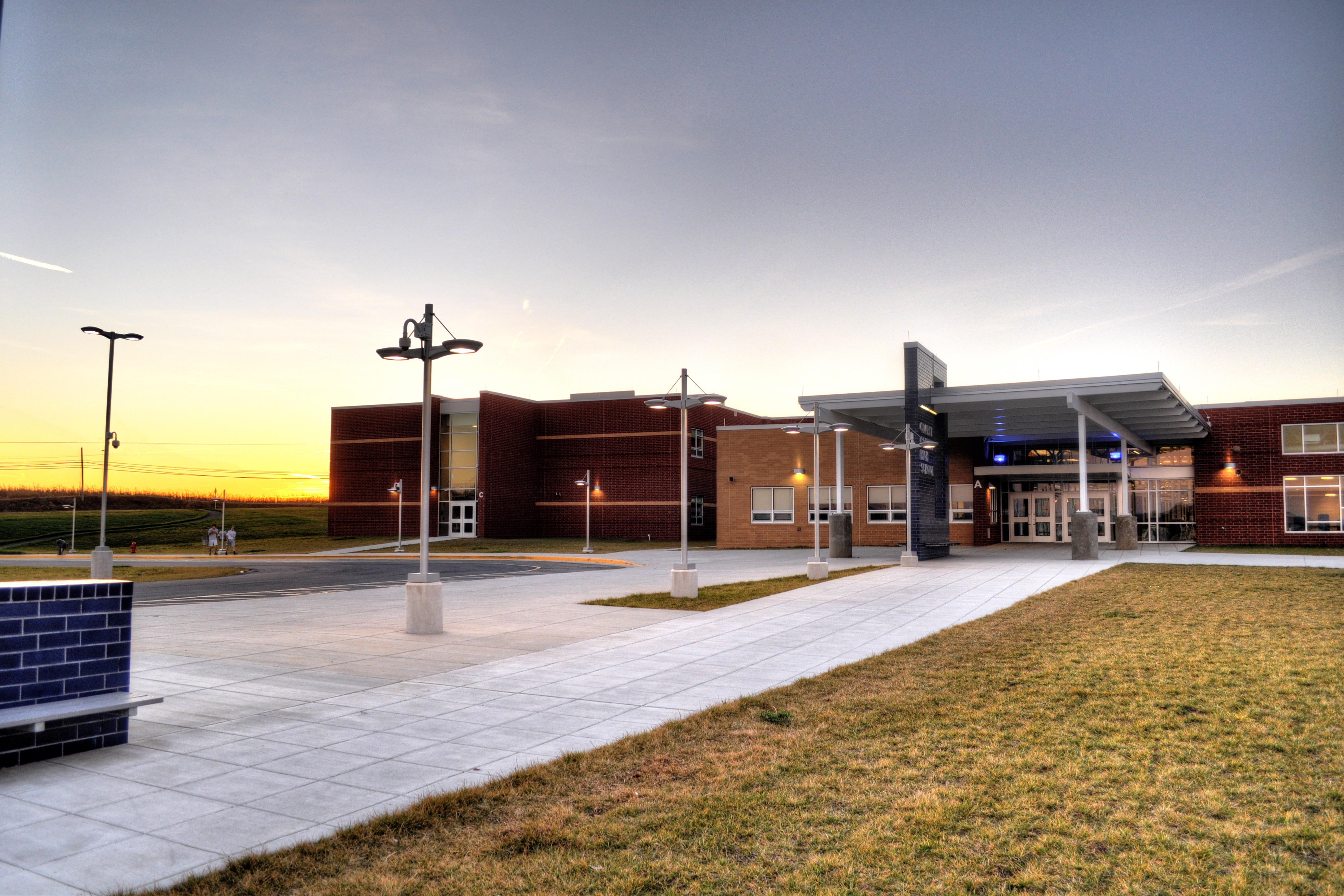 HDR composite image of Clarke County High School in 2012 at dusk.